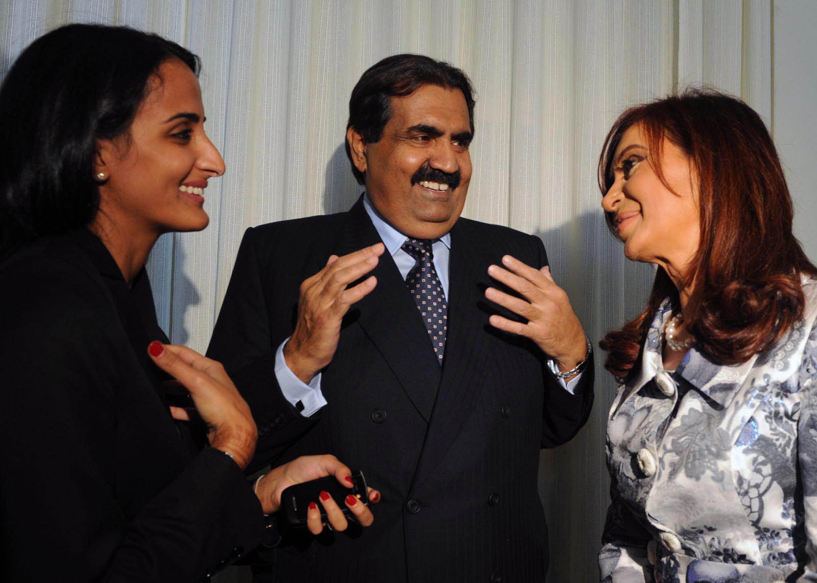 President of Argentina Cristina Fernandez with Emir of the state of Qatar Hamad bin Khalifa Al Thani at New York